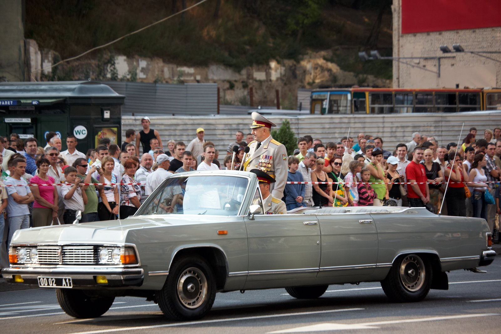 Independence Day parade in Kiev, Ukraine in 2008.